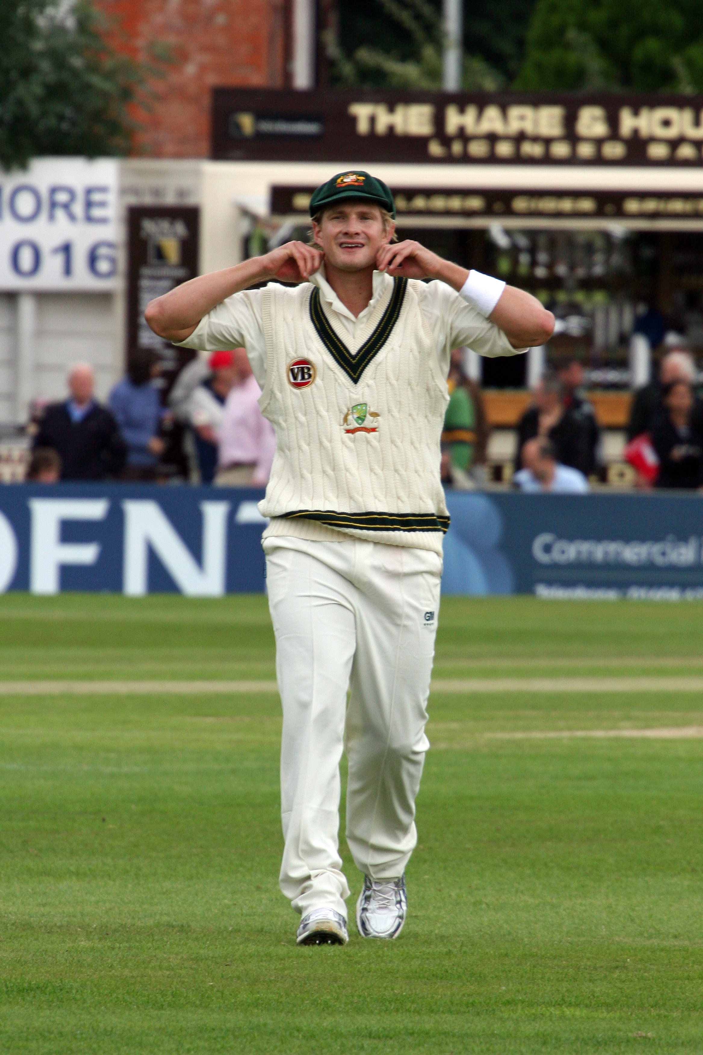 Shane Watson in the field against Northamptonshire during a tour match as part of the 2009 Ashes